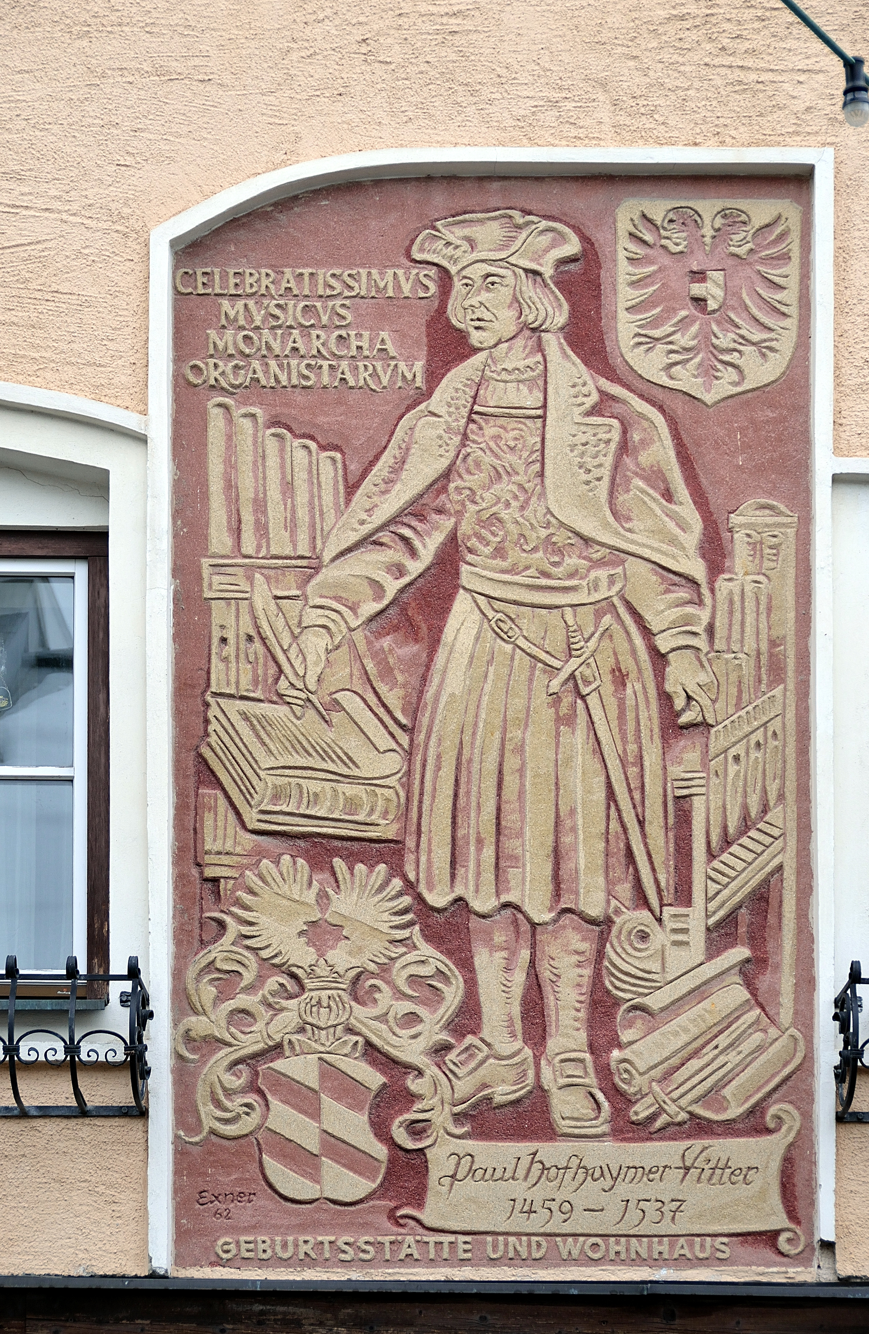 Sgraffito at the birthplace of the musician Paul Hofhaimer (1459-1537) in the Hoheneggstraße 8, Radstadt. Marked Exner 62.